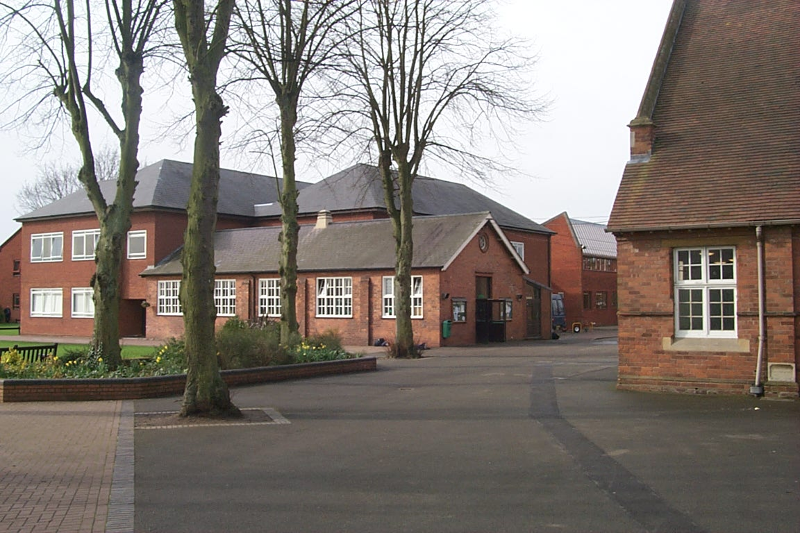 Four of the 1887 Lime Trees and the 1910 Engineering Block, Warwick School, Warwick, England